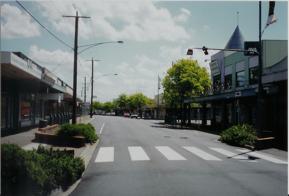 Moe CBD area, on George Street besides Gypsies pizza shop